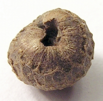 The seed of Thunbergia alata. Diameter of the seed is appr. 4 mm.